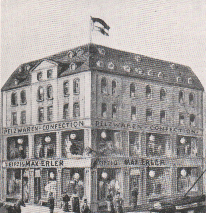 Emil Brass (German fur trader, consul, *1856; +1938): Aus dem Reiche der Pelze (From the Empire of Furs). Publisher: Neue Pelzwaren-Zeitung, Berlin 1911. 709 pages, cloth cover. 17,5 x 26 cm.